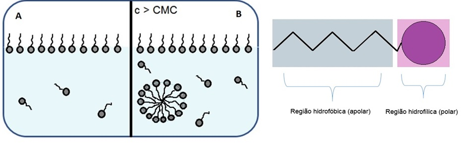 Exemple of micelas in construction